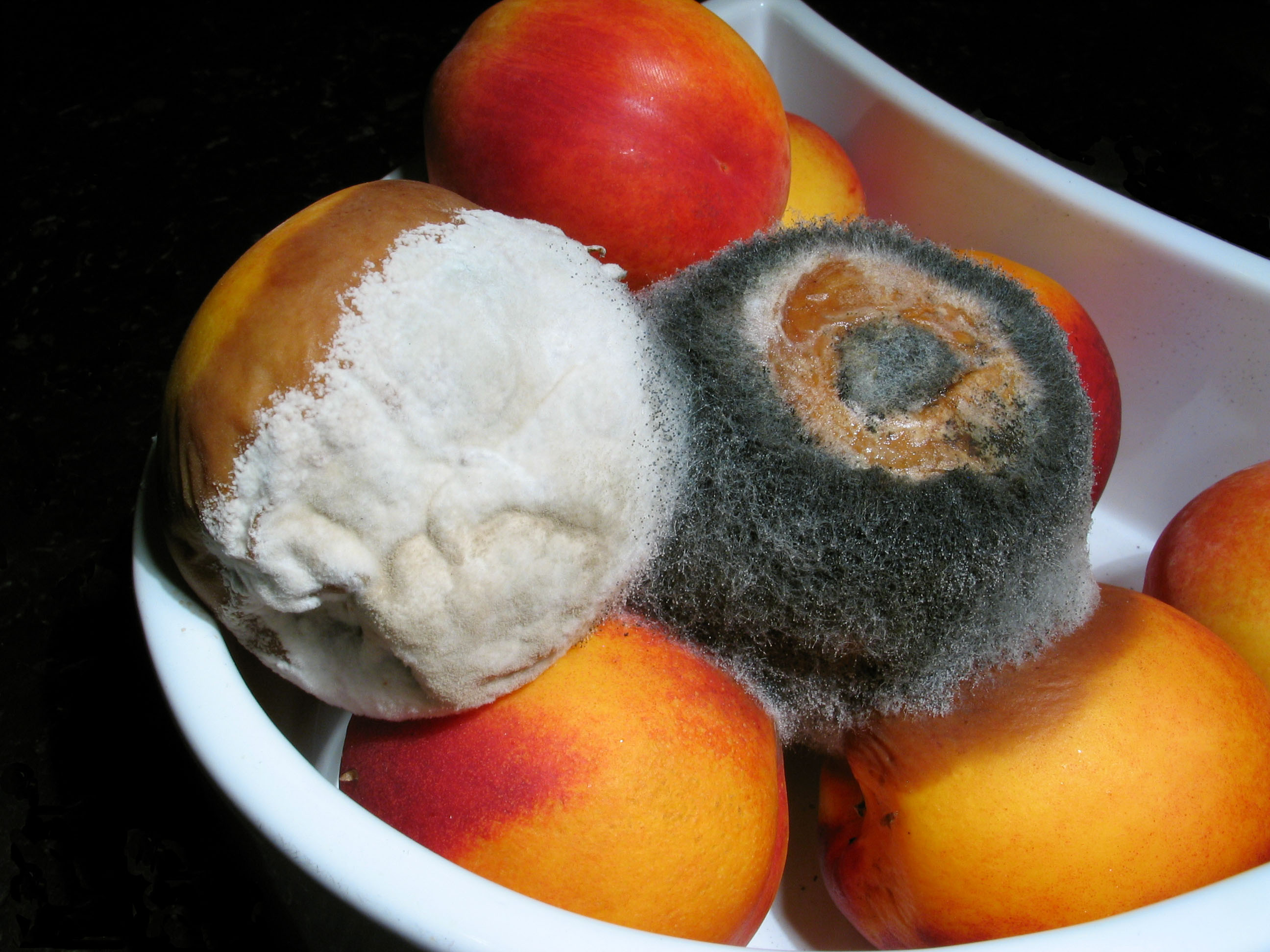 Moldy nectarines. Picture created and uploaded by Roger McLassus on 27 October 2006.